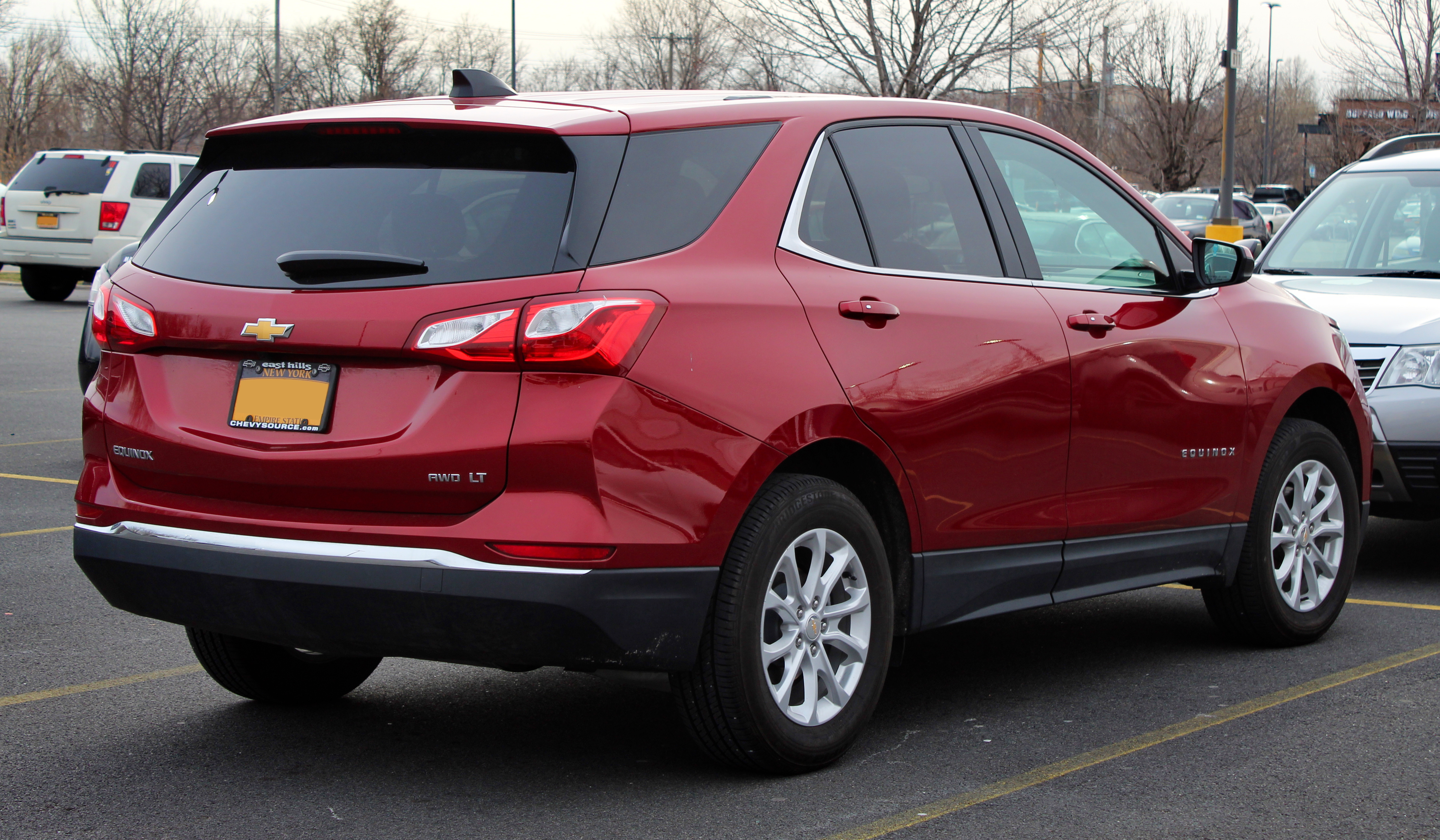 A 2018 Chevrolet Equinox LT photographed in College Point, Queens, New York, USA